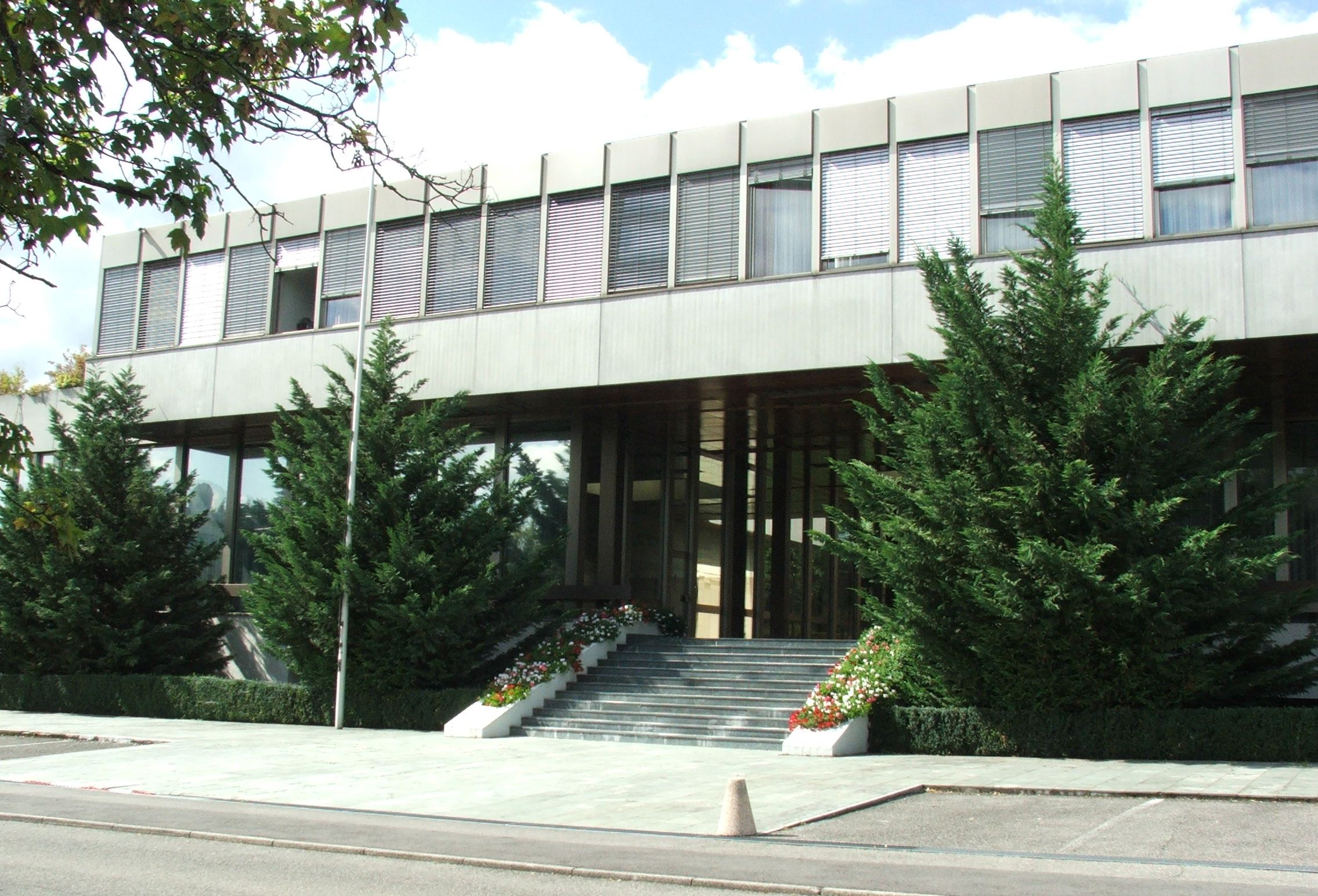 Permanent Mission of Poland to the UN in Geneva, Switzerland. Building of Polish mission to the UN is located in front of the Permanent mission of Slovakia.